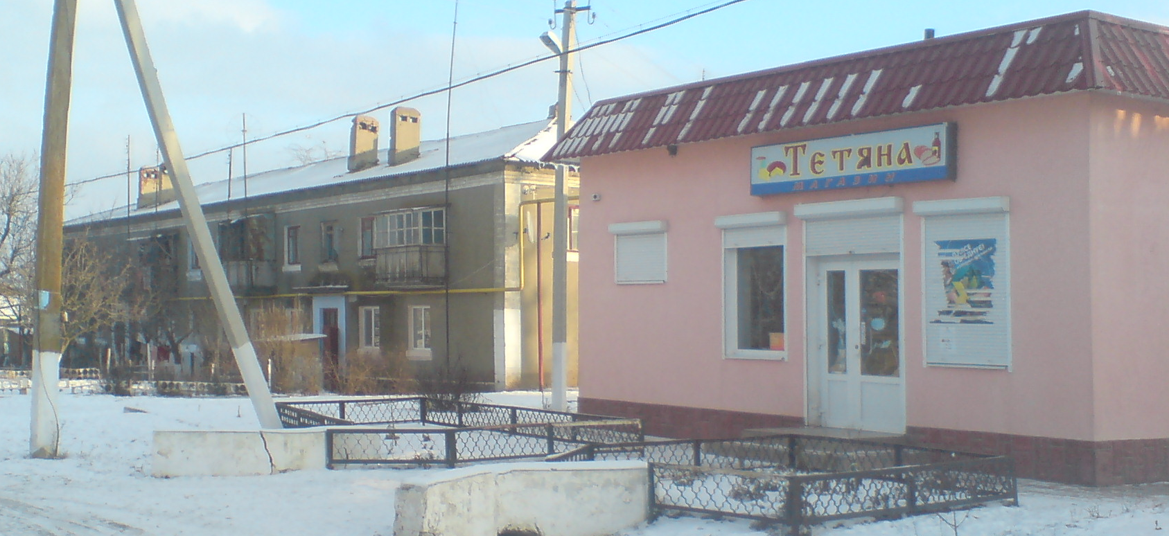 Centralna Zatyshshia